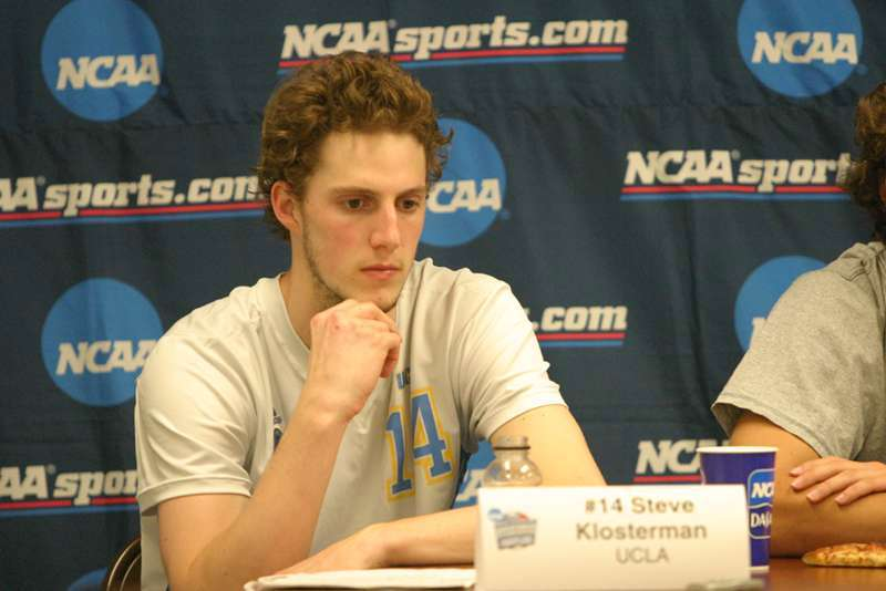 Klosterman in press-conference after winnig the national championchips